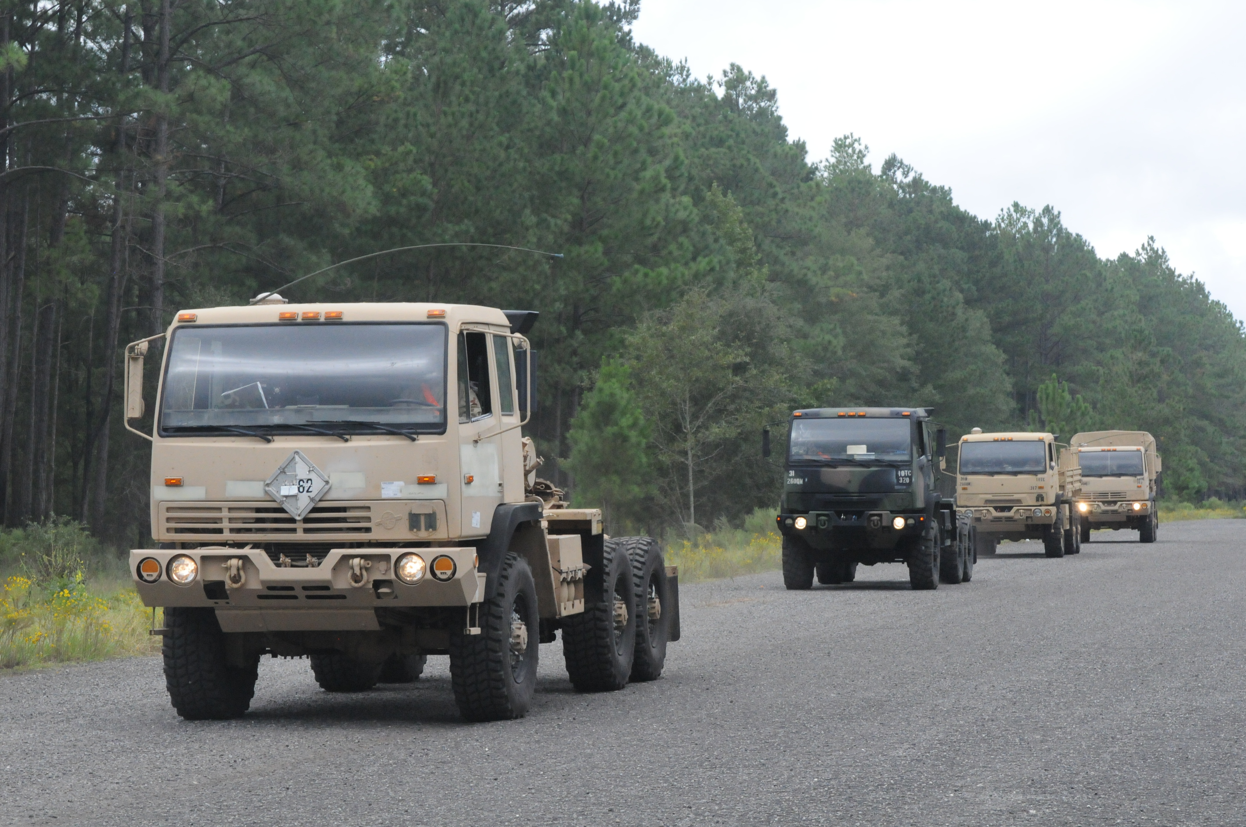 Soldiers from the 10th Trans. Co., 260th QM Bn., 3rd Sustainment Bde. conduct driver training in their Mission-Oriented Protective Posture gear for their upcoming, year-long CCMRF mission, at Fort Stewart, Ga., Sept. 23.